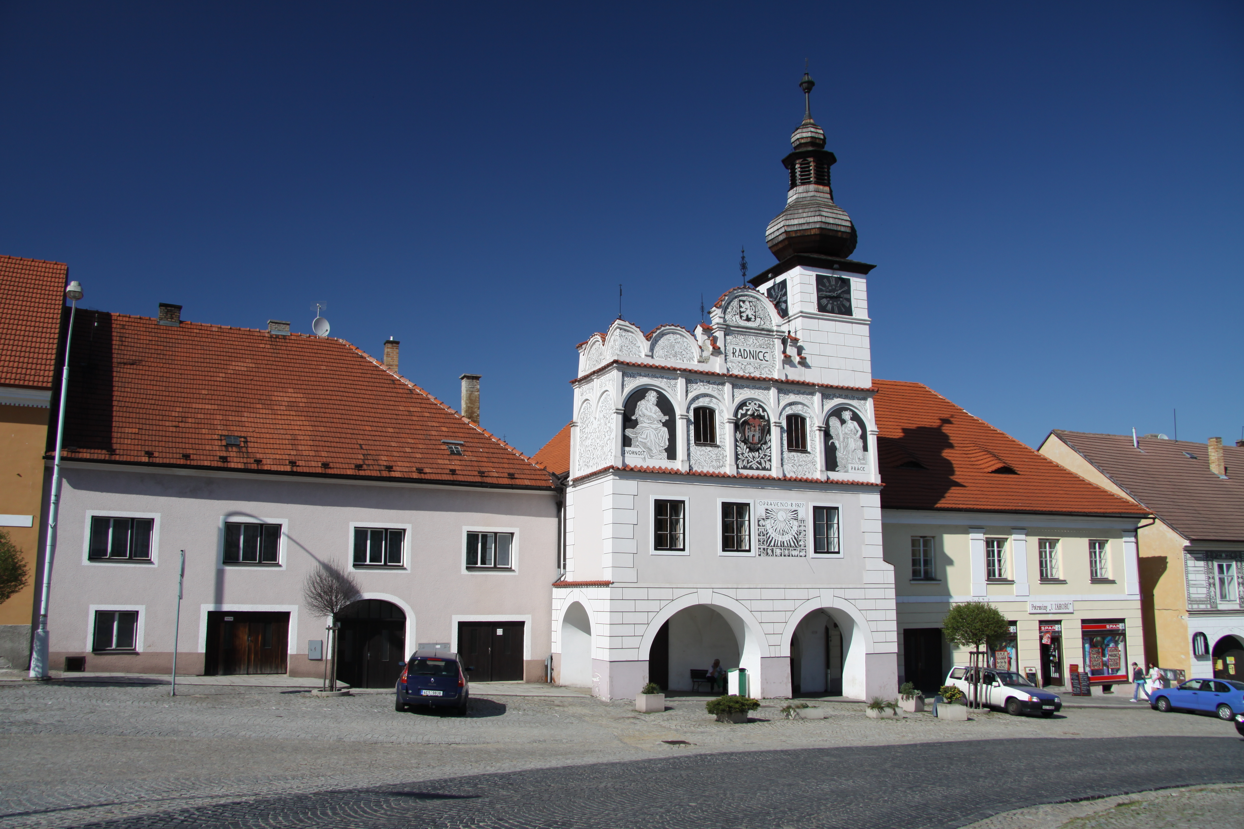 Town hall in Volyně in Strakonice District, Czech Republic - OpenStreetMap(Info)